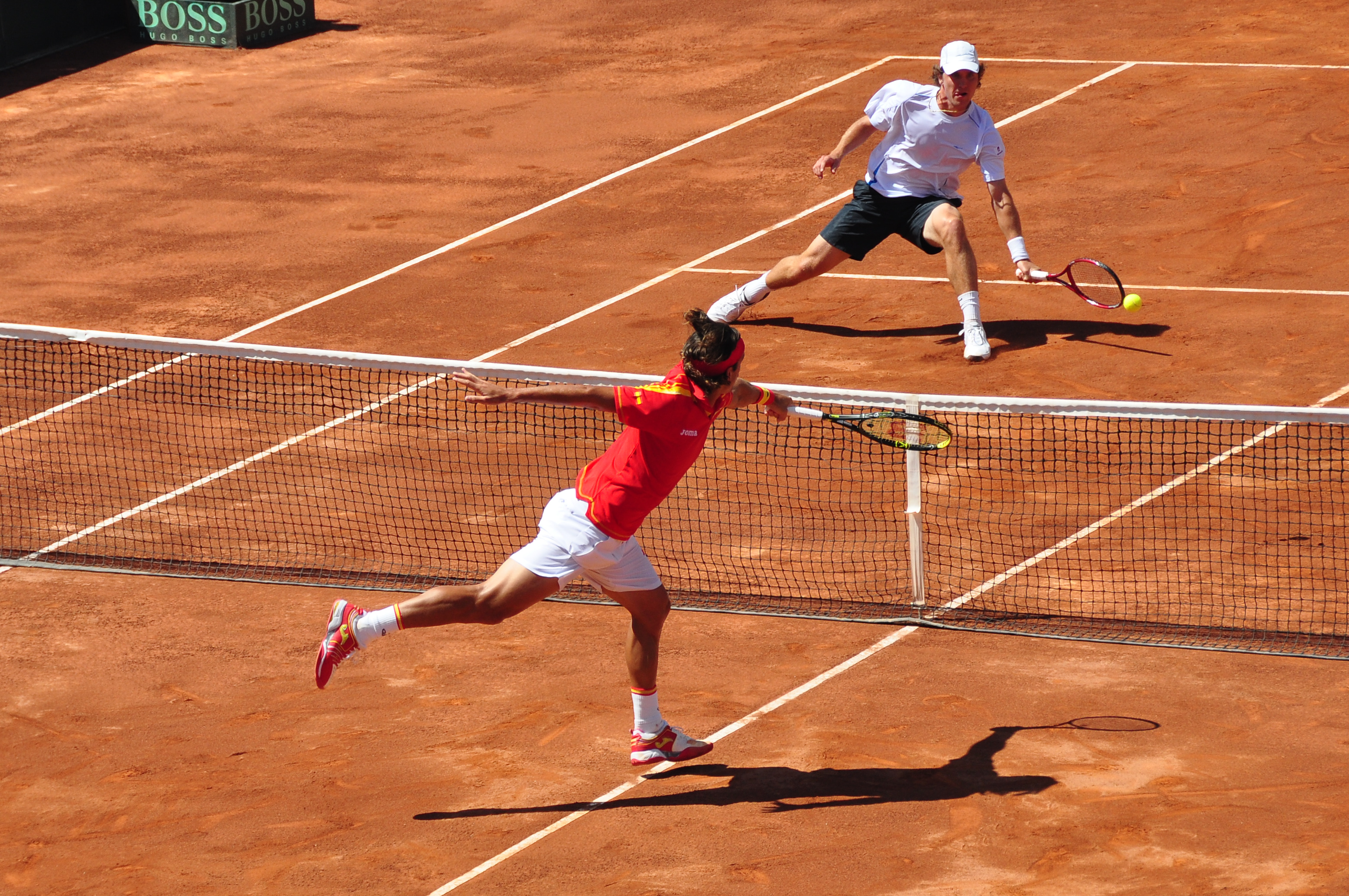 Feliciano López (left) and Fernando Verdasco (unseen) against Nicolas Kiefer (unseen) and Mischa Zverev (right) in the 2009 Davis Cup semifinals (Spain vs. Germany)